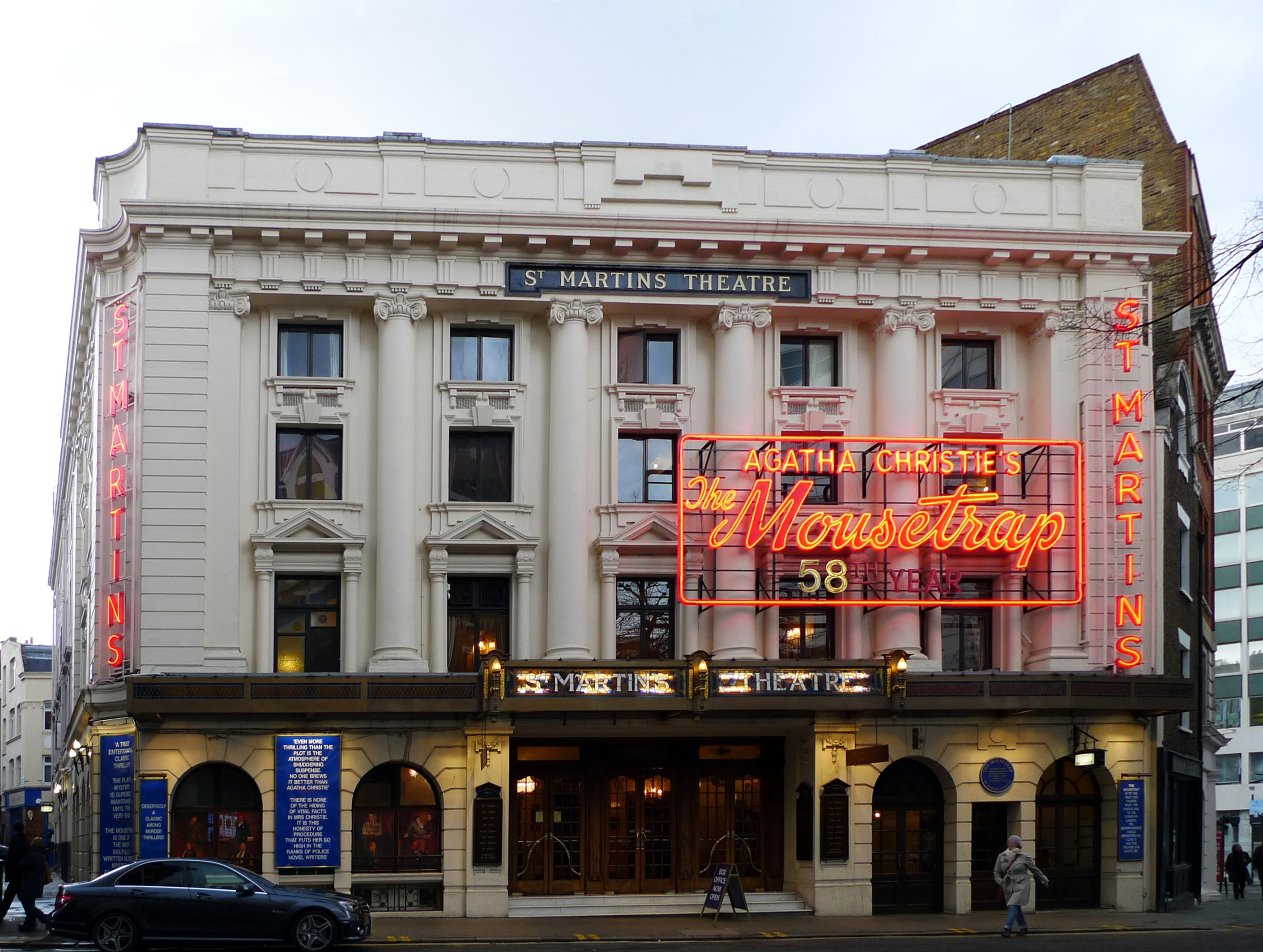 A theatre, one of many, in Covent Garden, which has been staging The Mousetrap since the early 1970s.